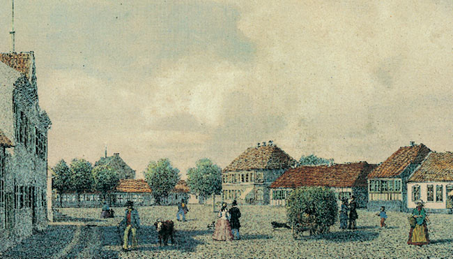 Rønne Store Torv in Rønne, Bornholm in c. 1860.